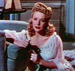 Cropped screenshot of Alice Faye from the trailer for the film The Gang's All Here